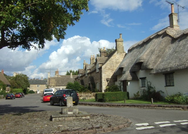 Well Cross, Edith Weston A fine array of cottages, the nearest being especially lovely and well restored.